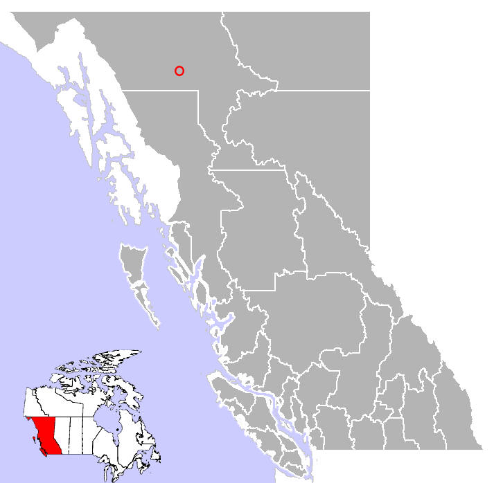 Dease Lake, location.